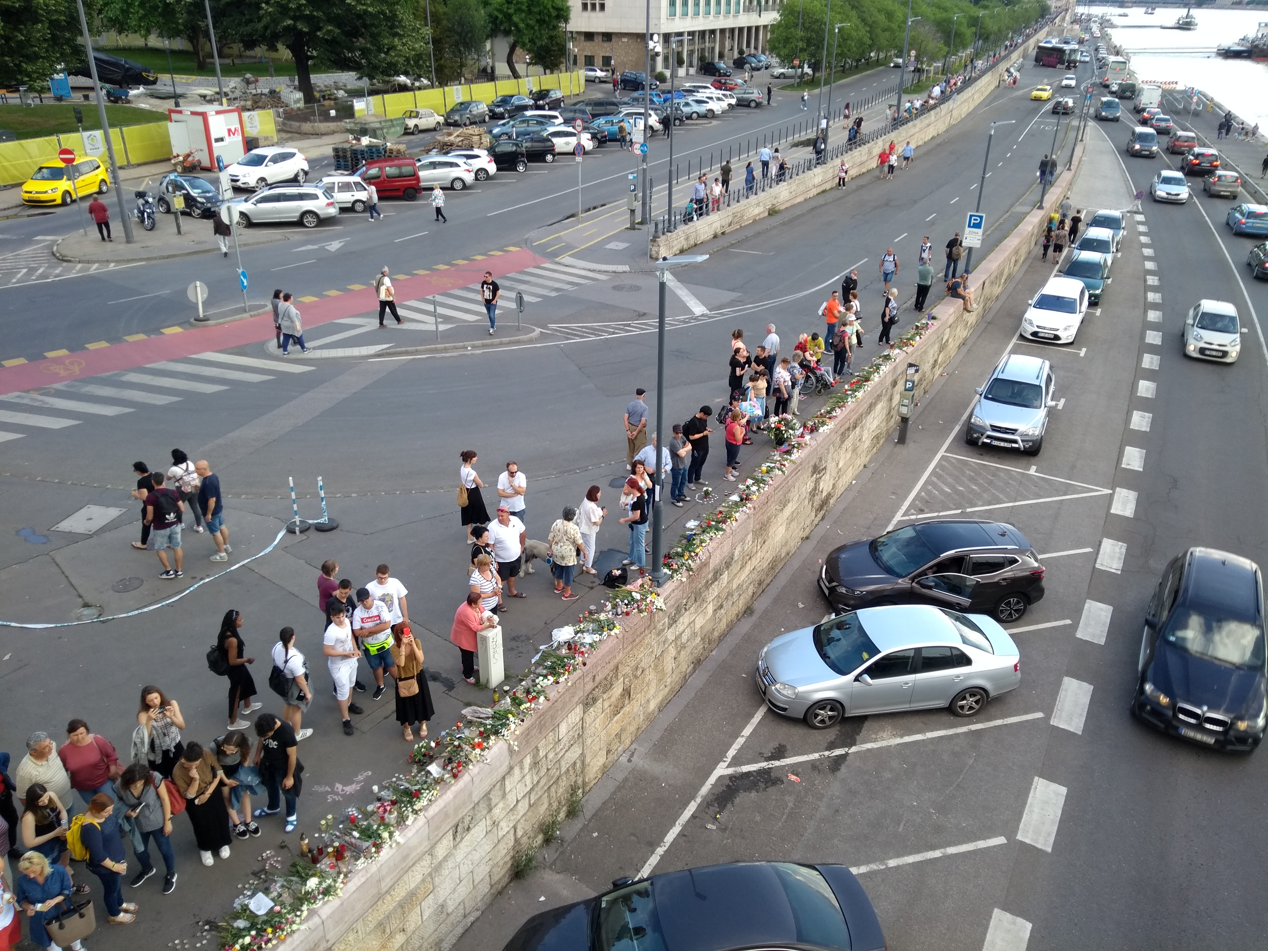 Memorial of flowers and candles following the sinking of the Hableány at the feet of Margaret Bridge, at the southern side of the Pest bridgehead. The photo was taken from the bridge, that section will soon be closed for civilians.